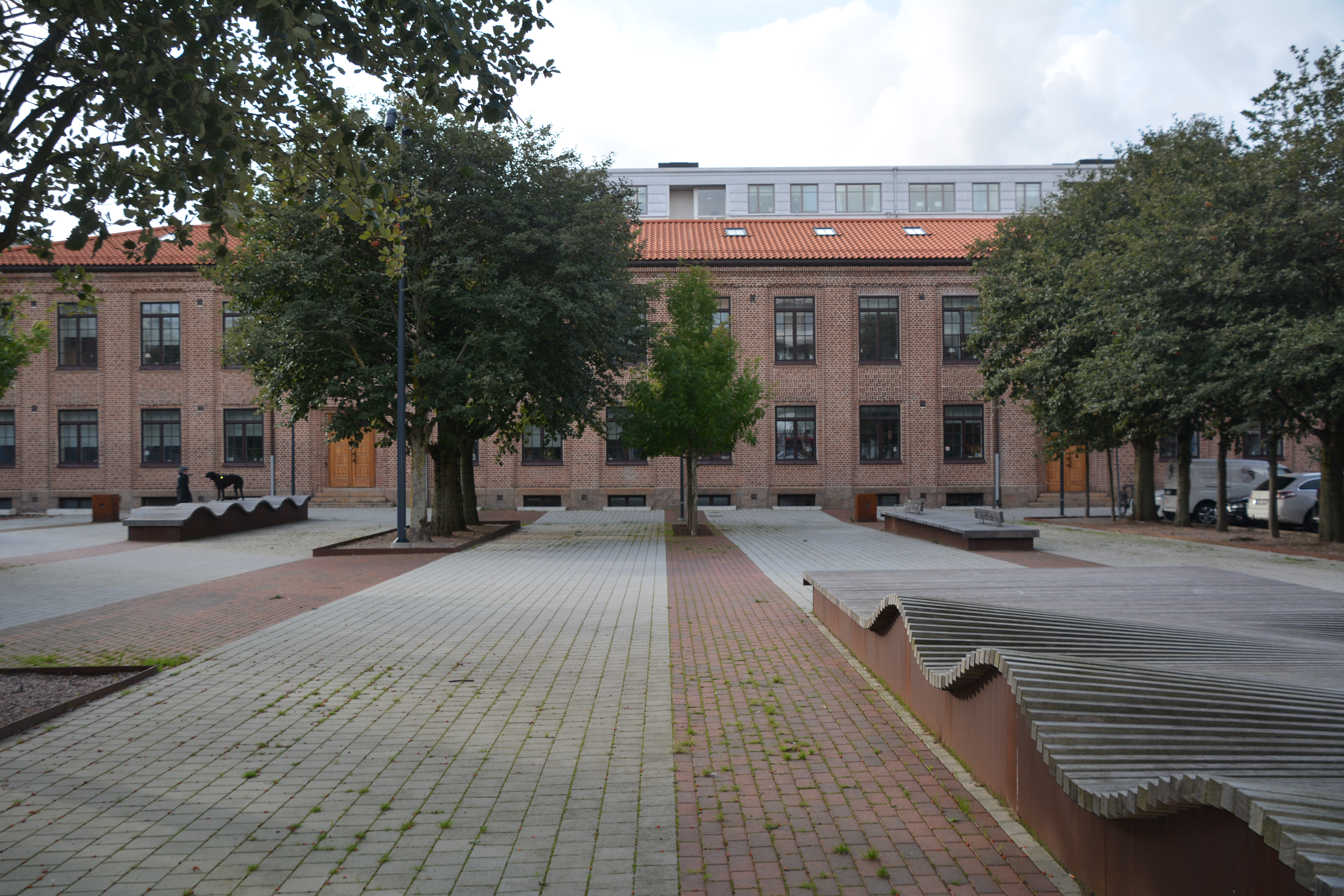 Nordiskafilts gamla kontor vid nuvarande Ernst Wigforss plats i Halmstad